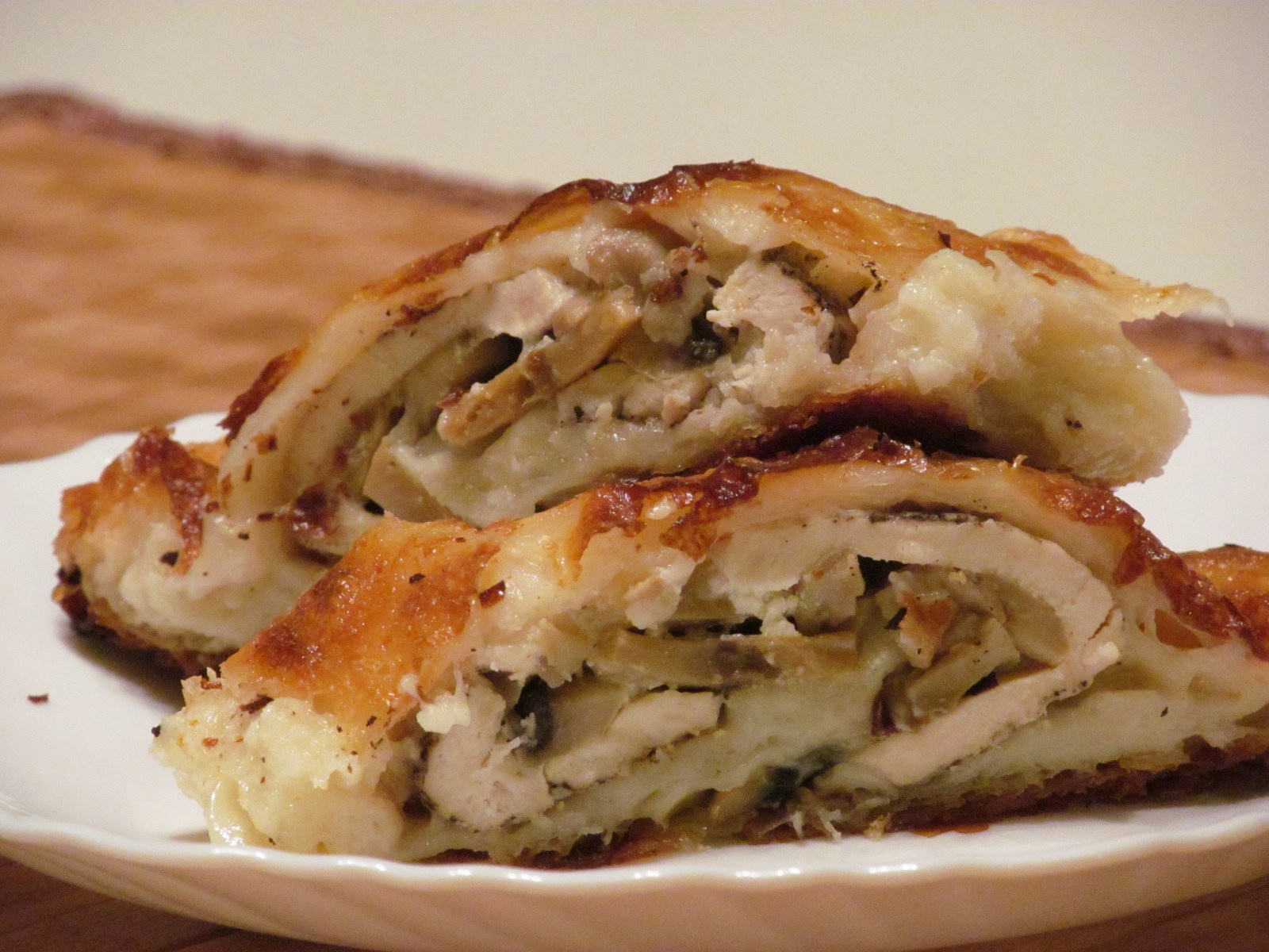 Pogledajte recept za pitu sa belim mesom i sampinjonima na sajtu Serbian pita (fillo pie) with chicken white meat and champignons